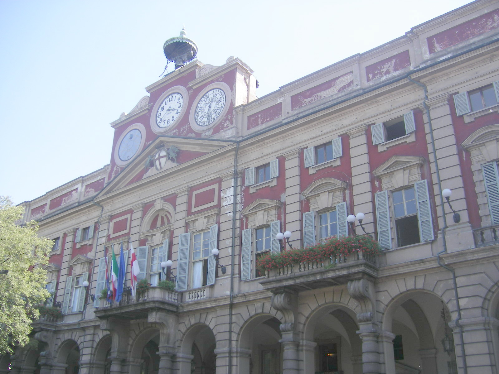 Alessandria - Town hall